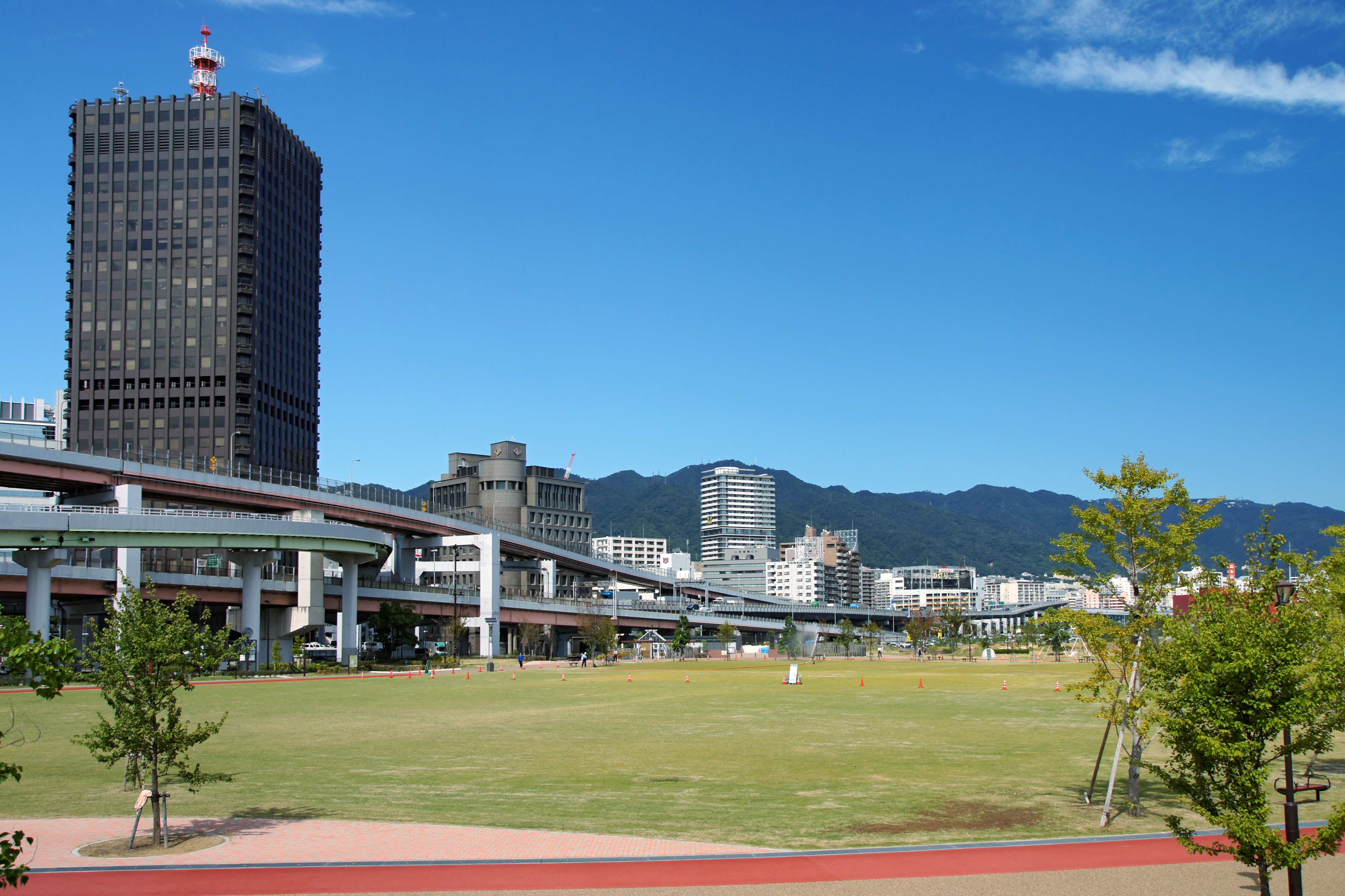 Minato-no-mori Park in Kobe, Hyogo prefecture, Japan